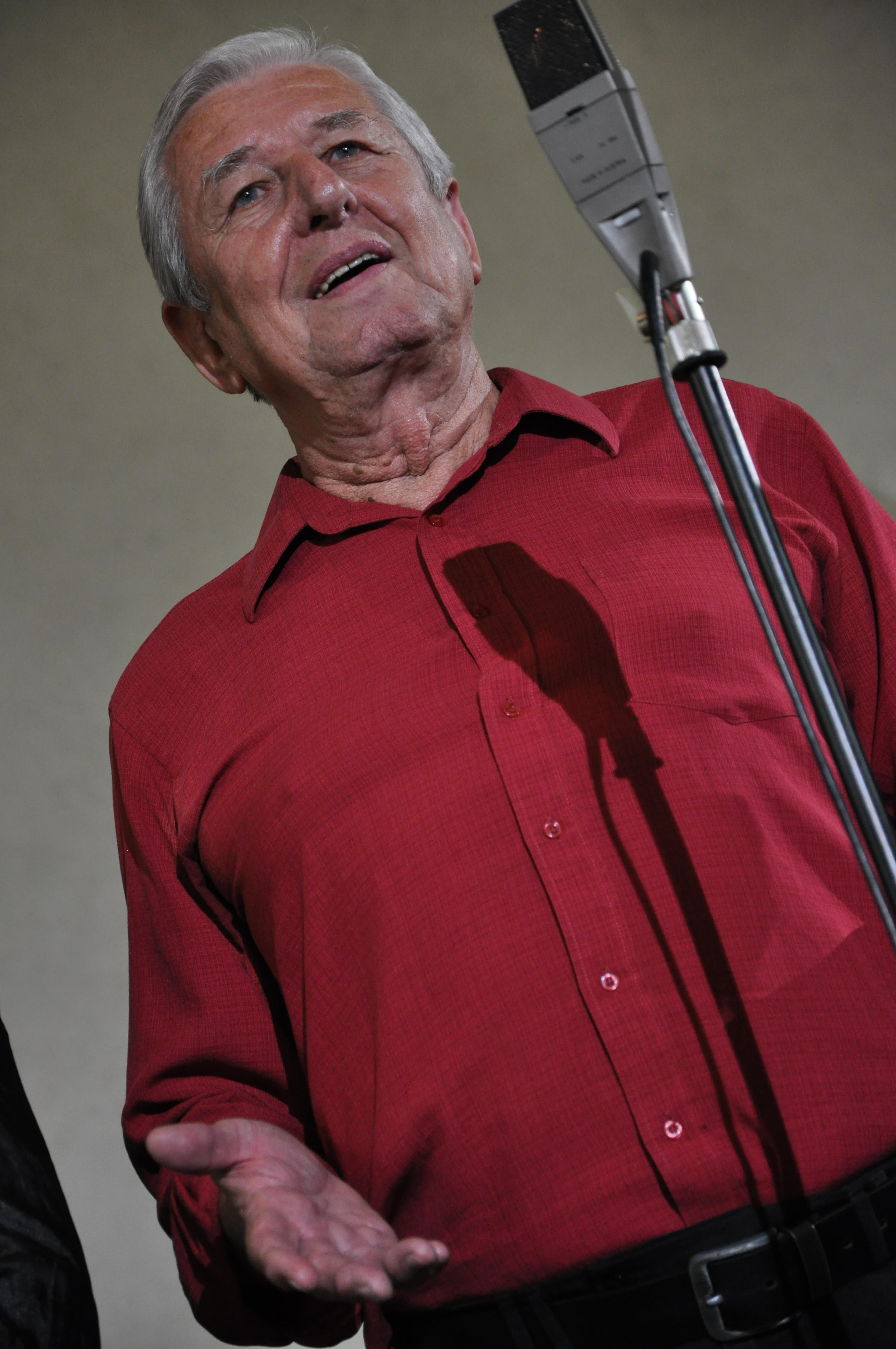 Dušan Vančura, member of czech music group Spirituál kvintet during concert in Prague, Czech Republic.